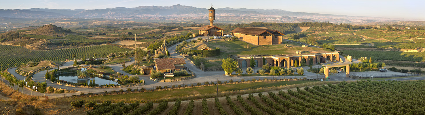 Eguren Ugarte Landscape